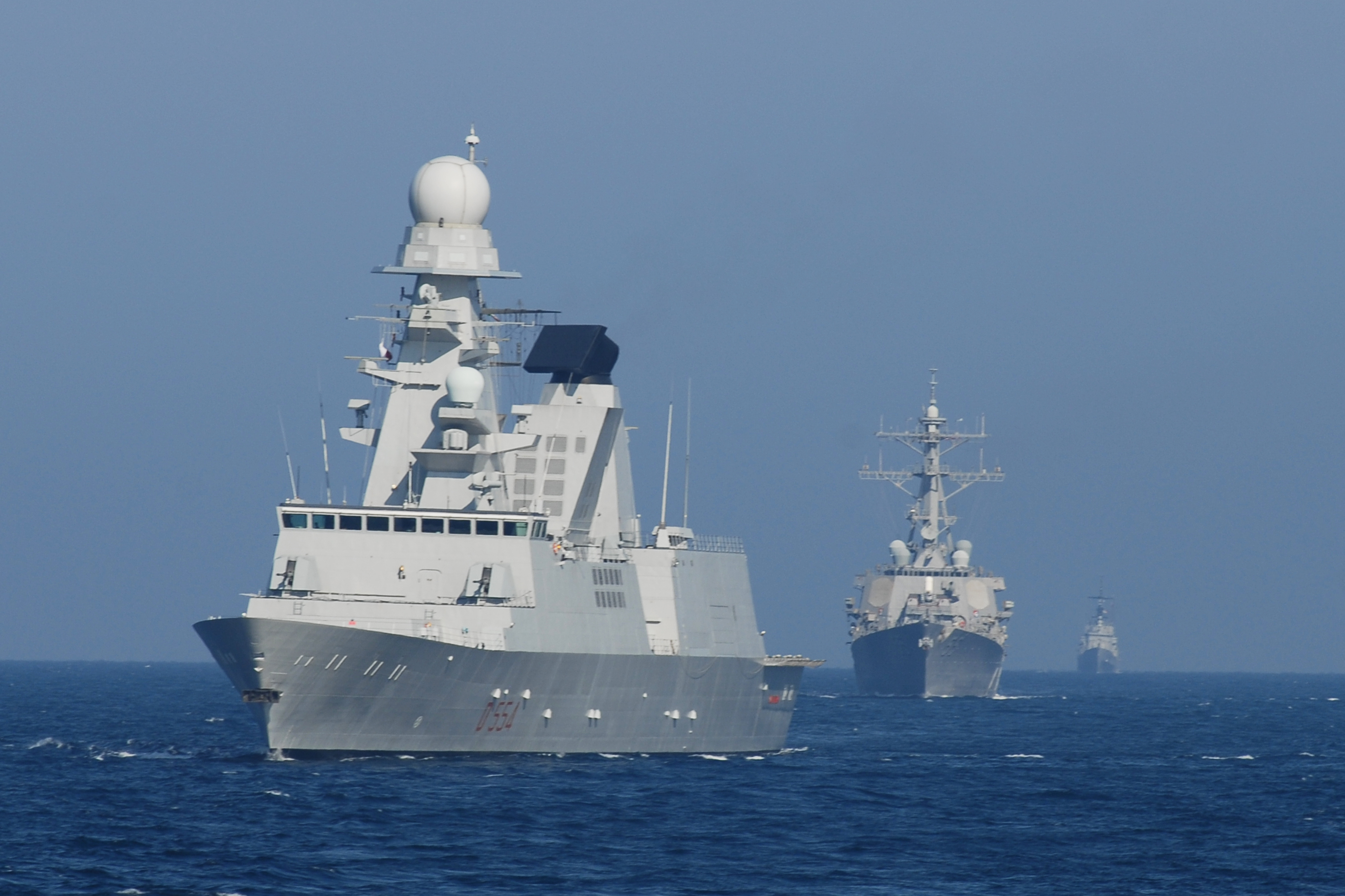 ITS Duilio